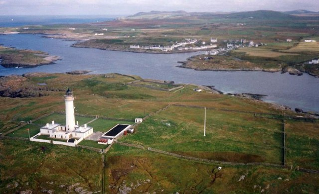 Rhinns of Islay Lighthouse